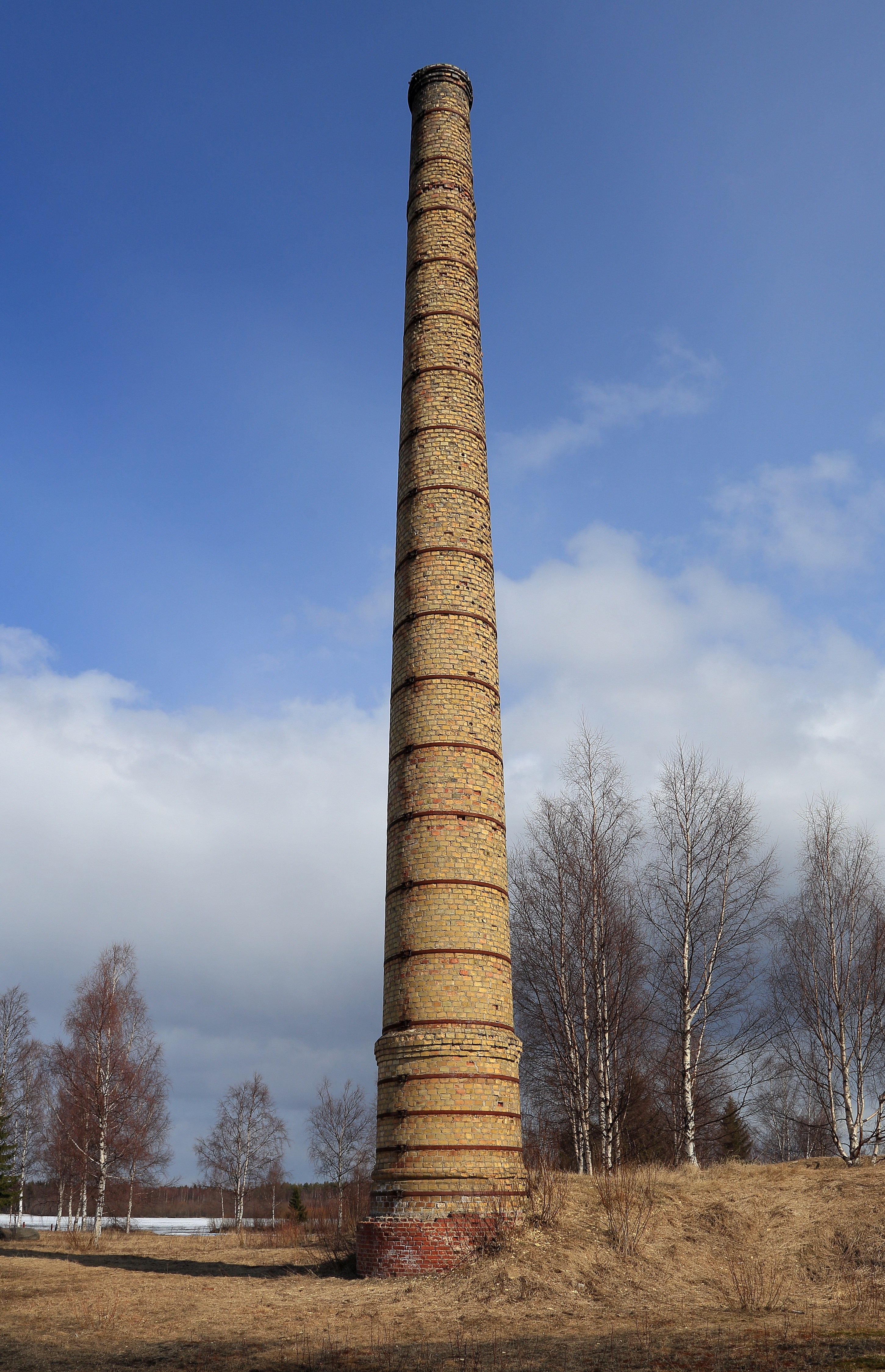 Only the chimney is left of the Santaholma sawmill (1915–1968) in Haukipudas, Oulu.